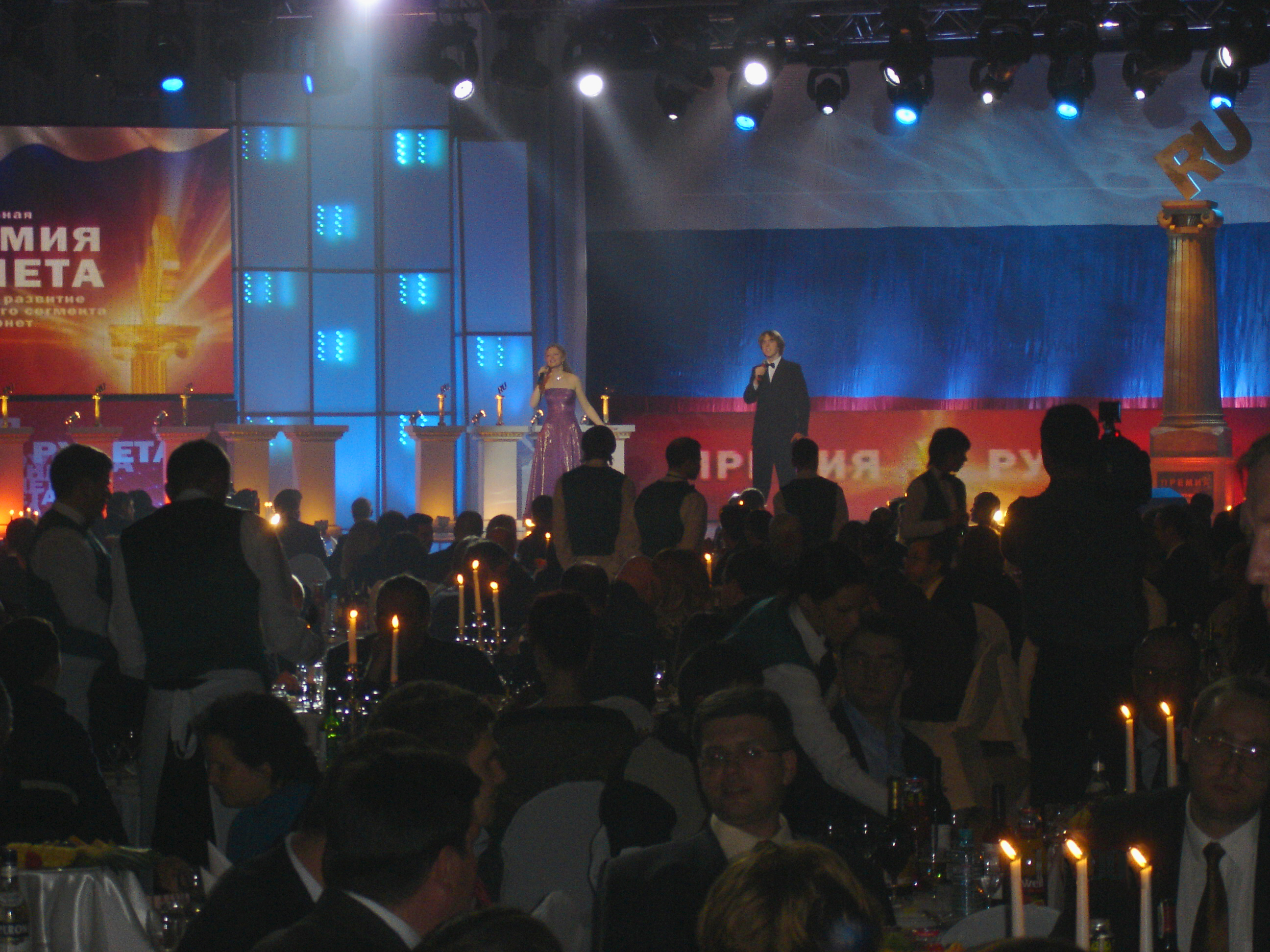 Russian Wikipedia - Runet-2006 prize winner. Introduction. RUNET Hymn.